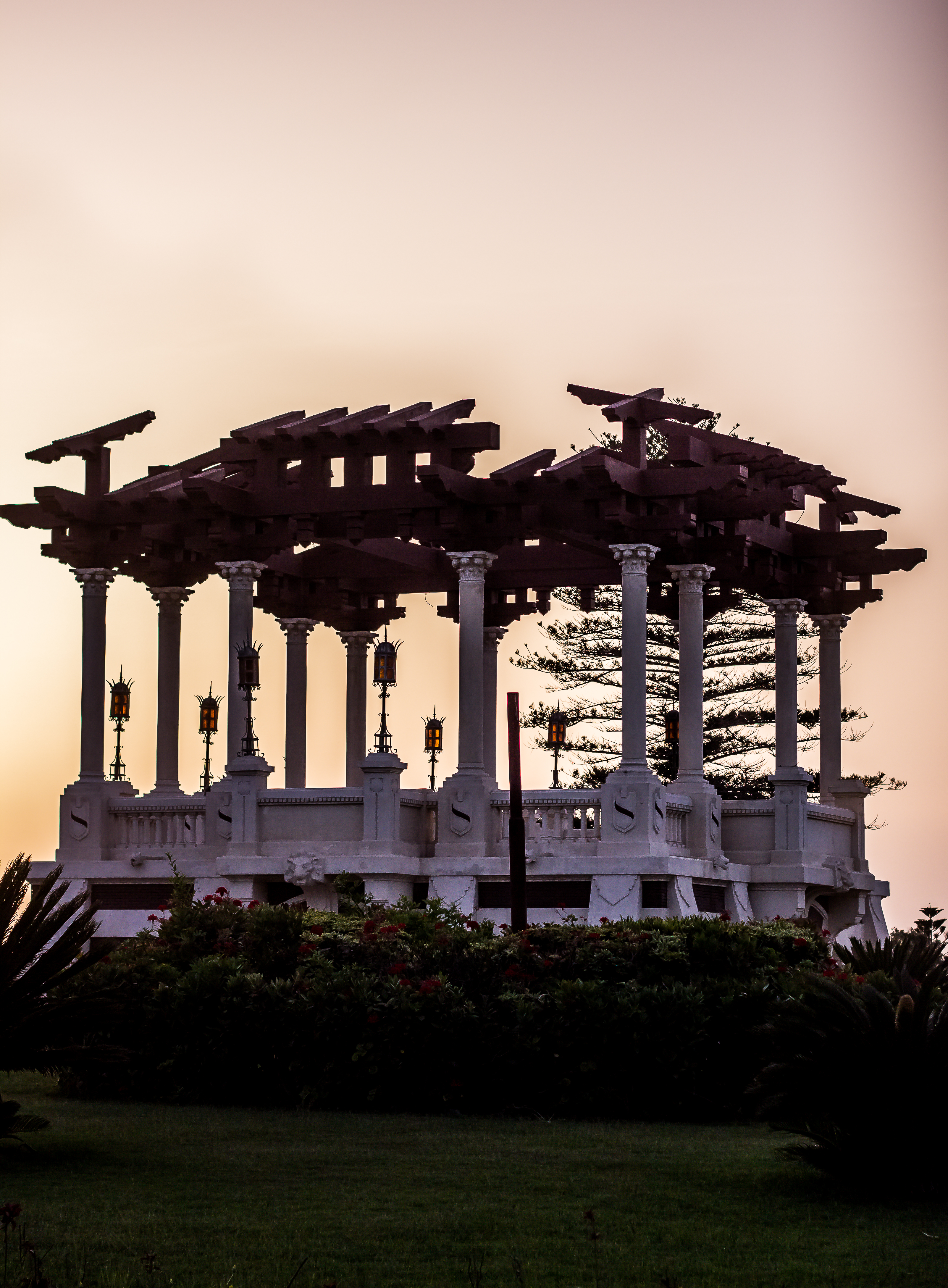 the place where guards stand and secure the monatza palace